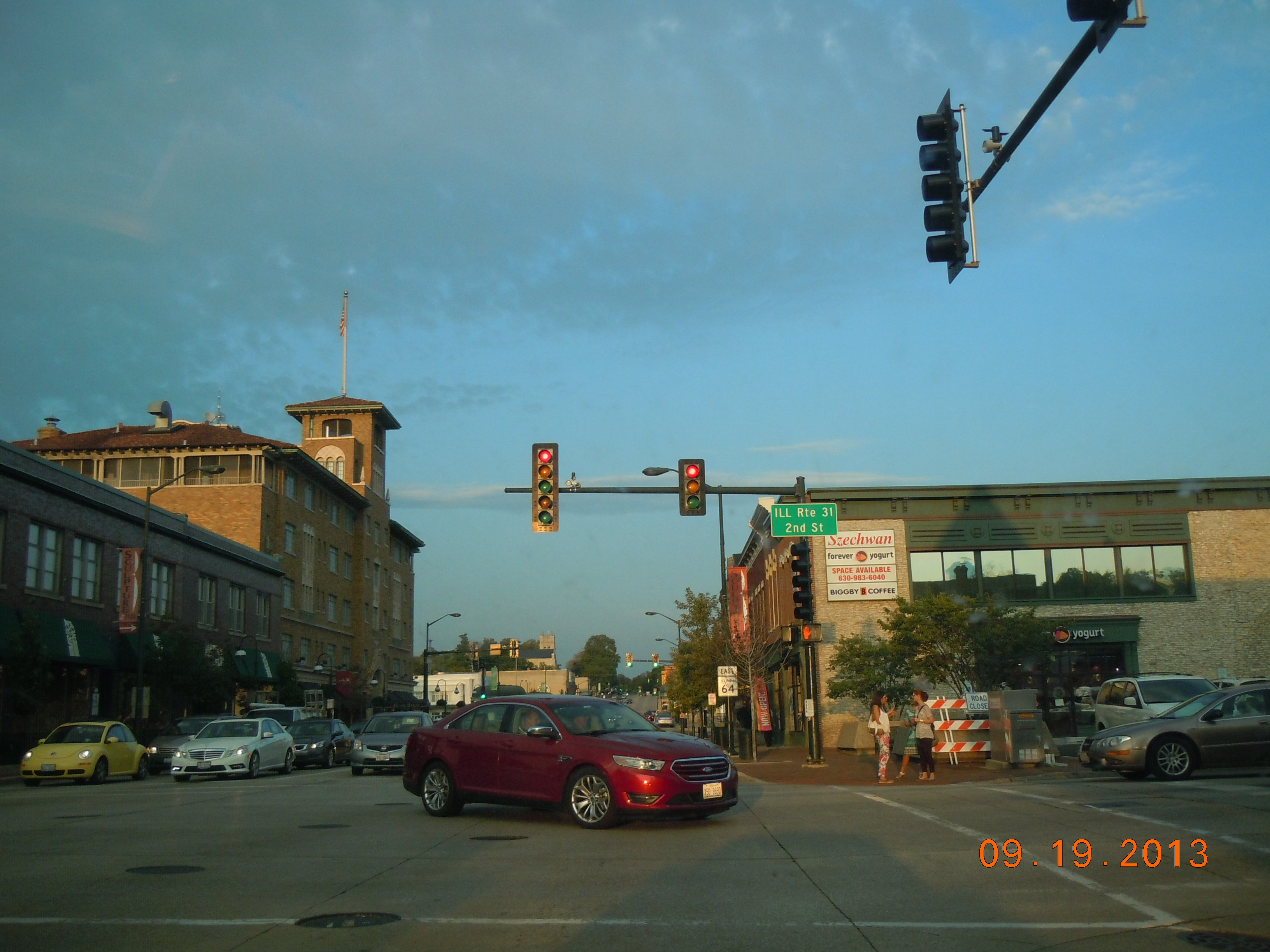 Downtown St. Charles, IL facing east, showing Hotel Baker on the left with the American Flag on top. (W. Main St./IL 64 at 2nd St./IL 31)